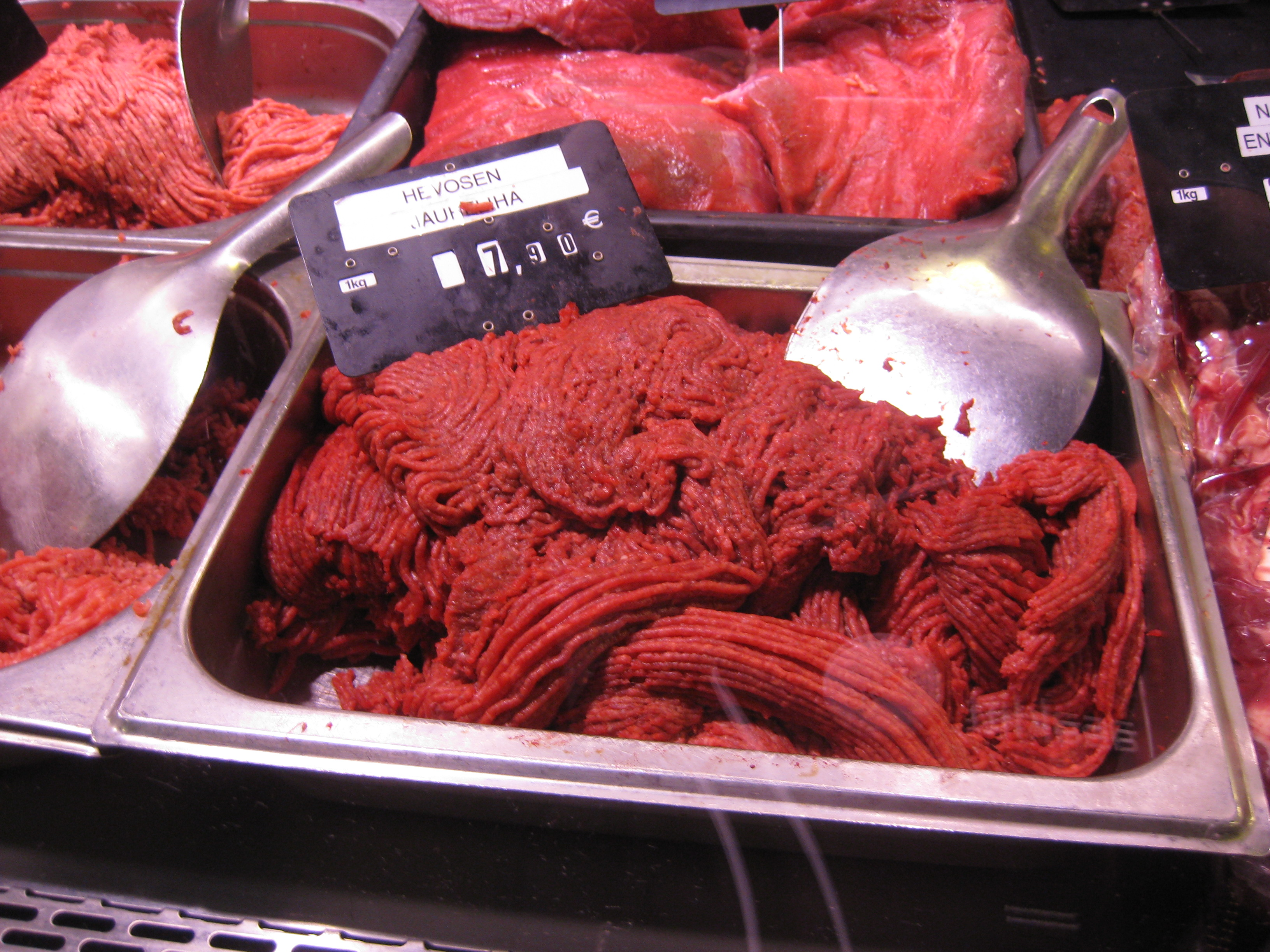 Minced horse meat at Tampere Market Hall, Finland